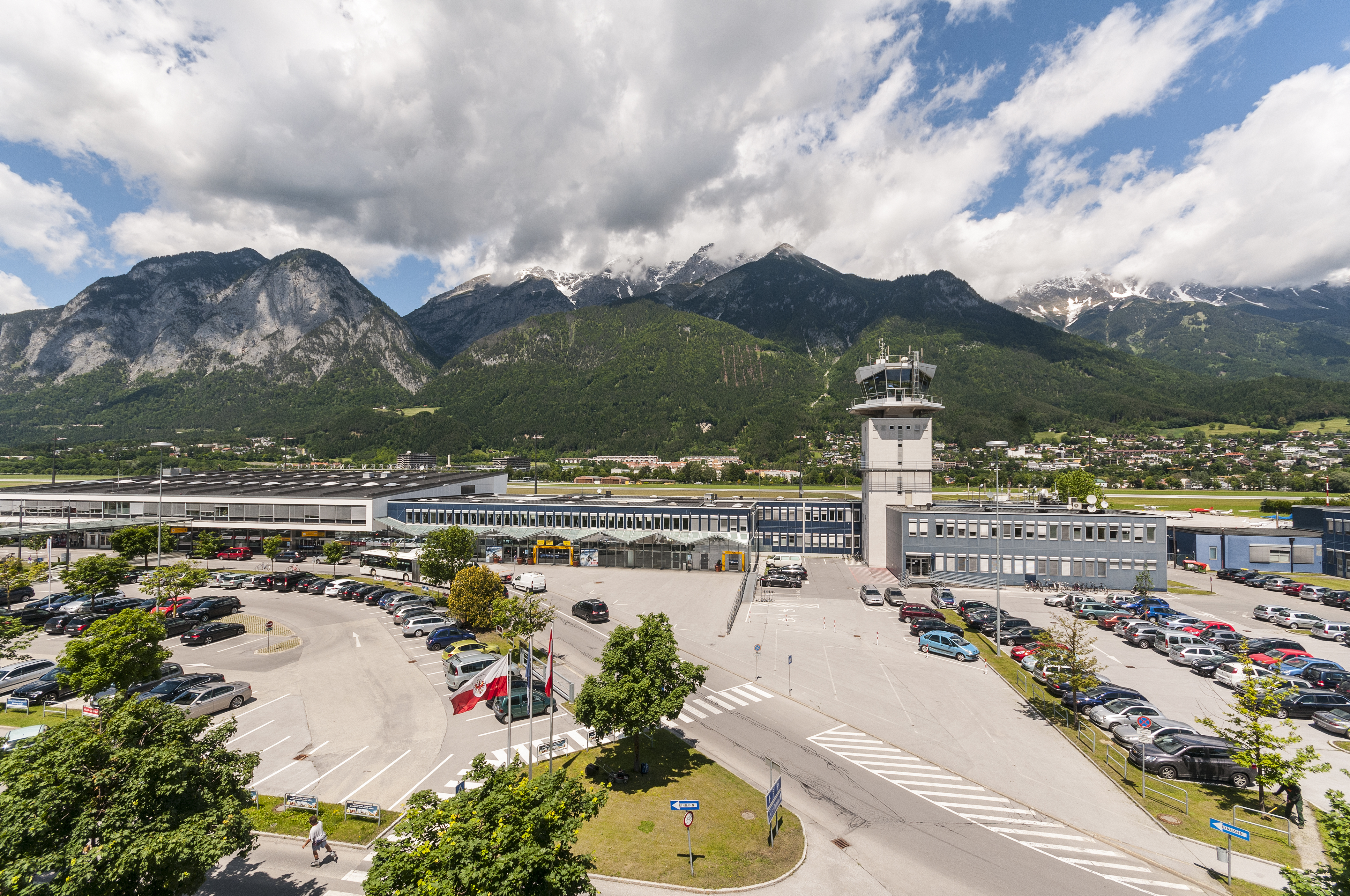 Innsbruck Airport, Austria